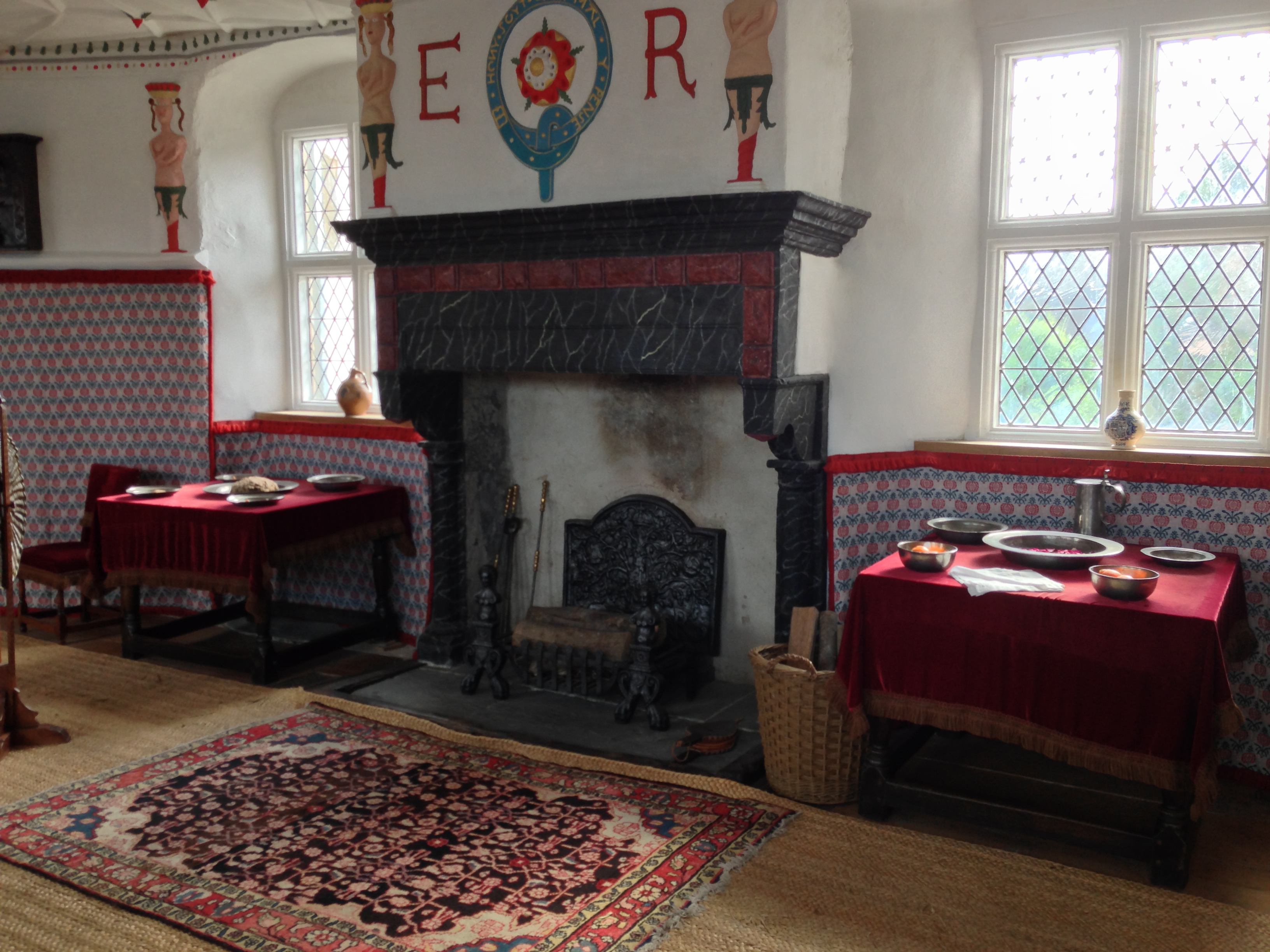 Fireplace in the Great Chamber of Plas Mawr